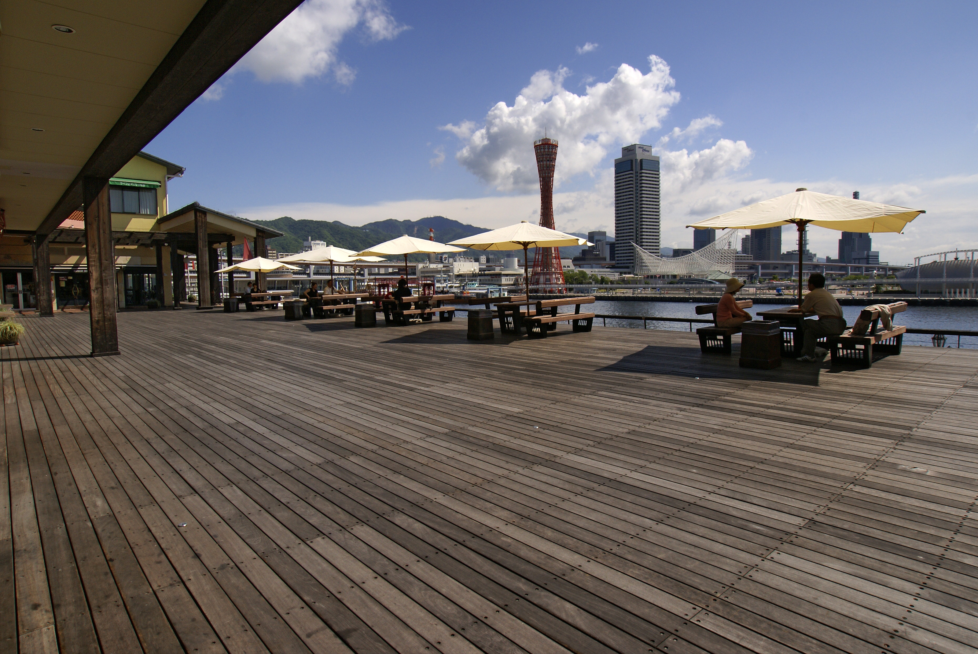 "MOSAIC" of Harborland in Kobe, Hyogo, Japan